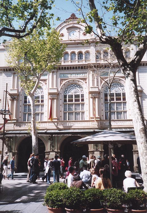 Barcelona, Spain: Façade of Gran Teatre del Liceu (opera house).